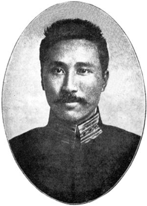 Cheng Jiongming陈炯明, was a revolutionary figure in the early periods of the Republic of China.